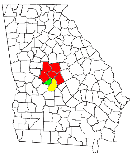 Locator map of the Macon-Warner Robins-Fort Valley Combined Statistical Area in the central part of the U.S. state of Georgia. The two components of the CSA are colored separately: Macon Metropolitan Statistical Area: red Warner Robins Metropolitan Statistical Area: yellow Fort Valley Micropolitan Statistical Area: green